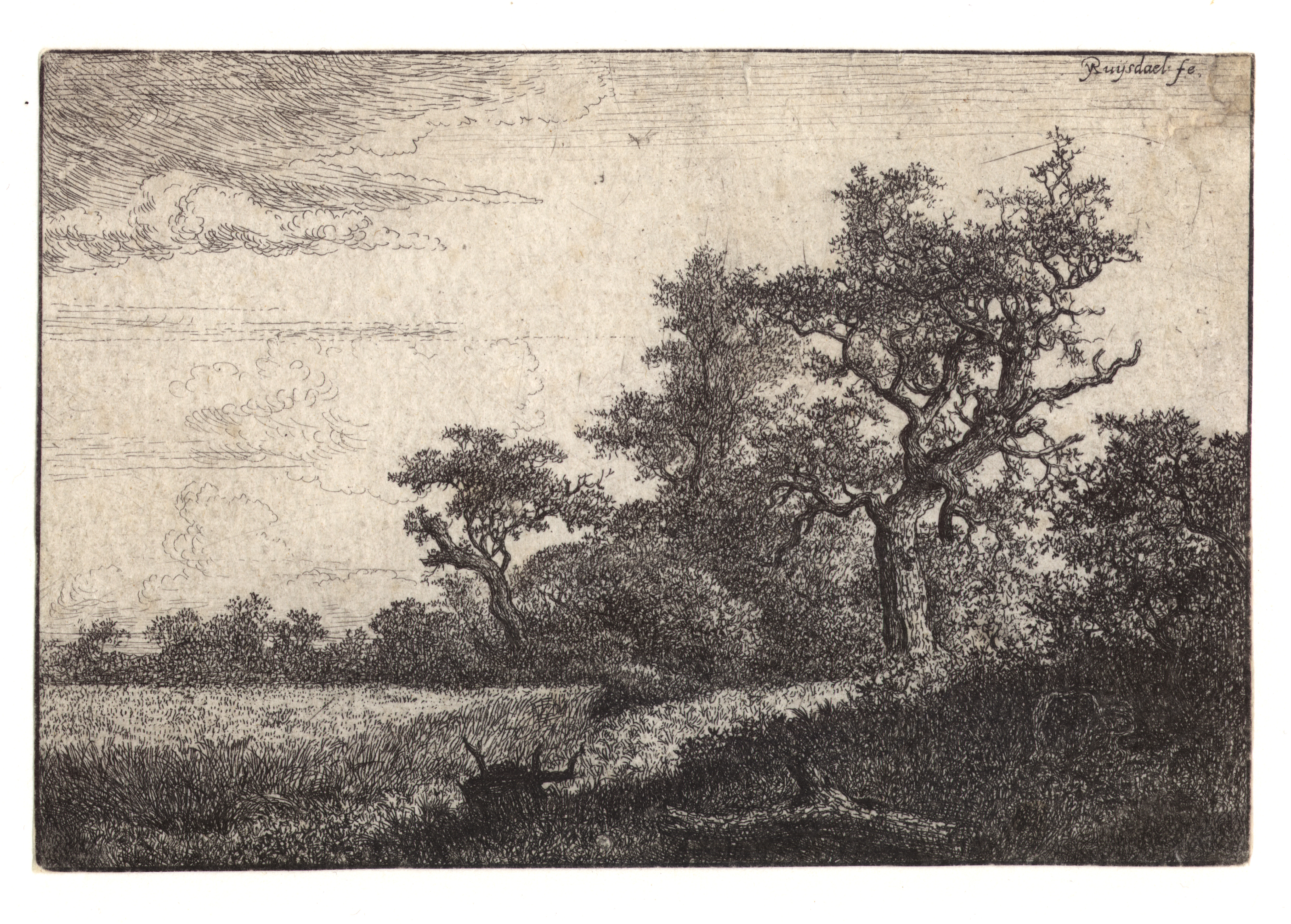 Etching of tree and grainfield